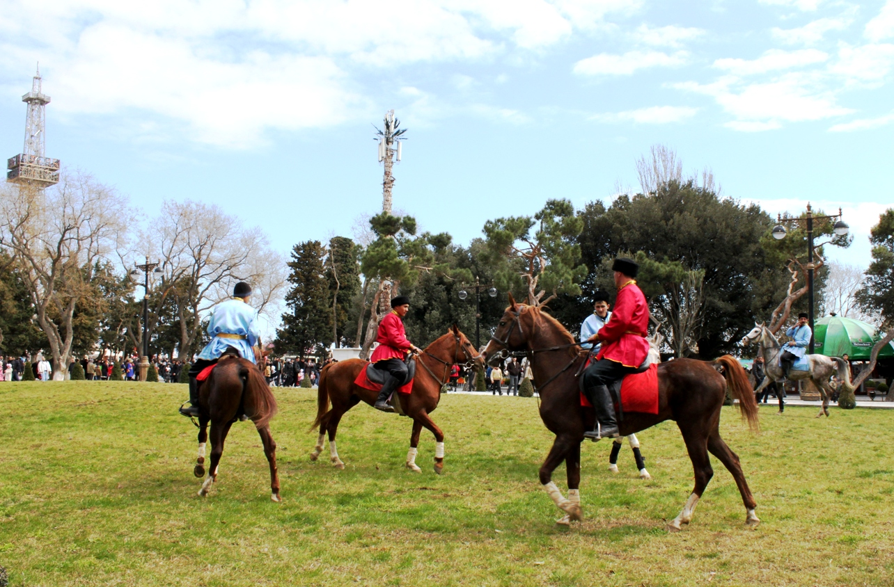 Celebration in Azerbaijan